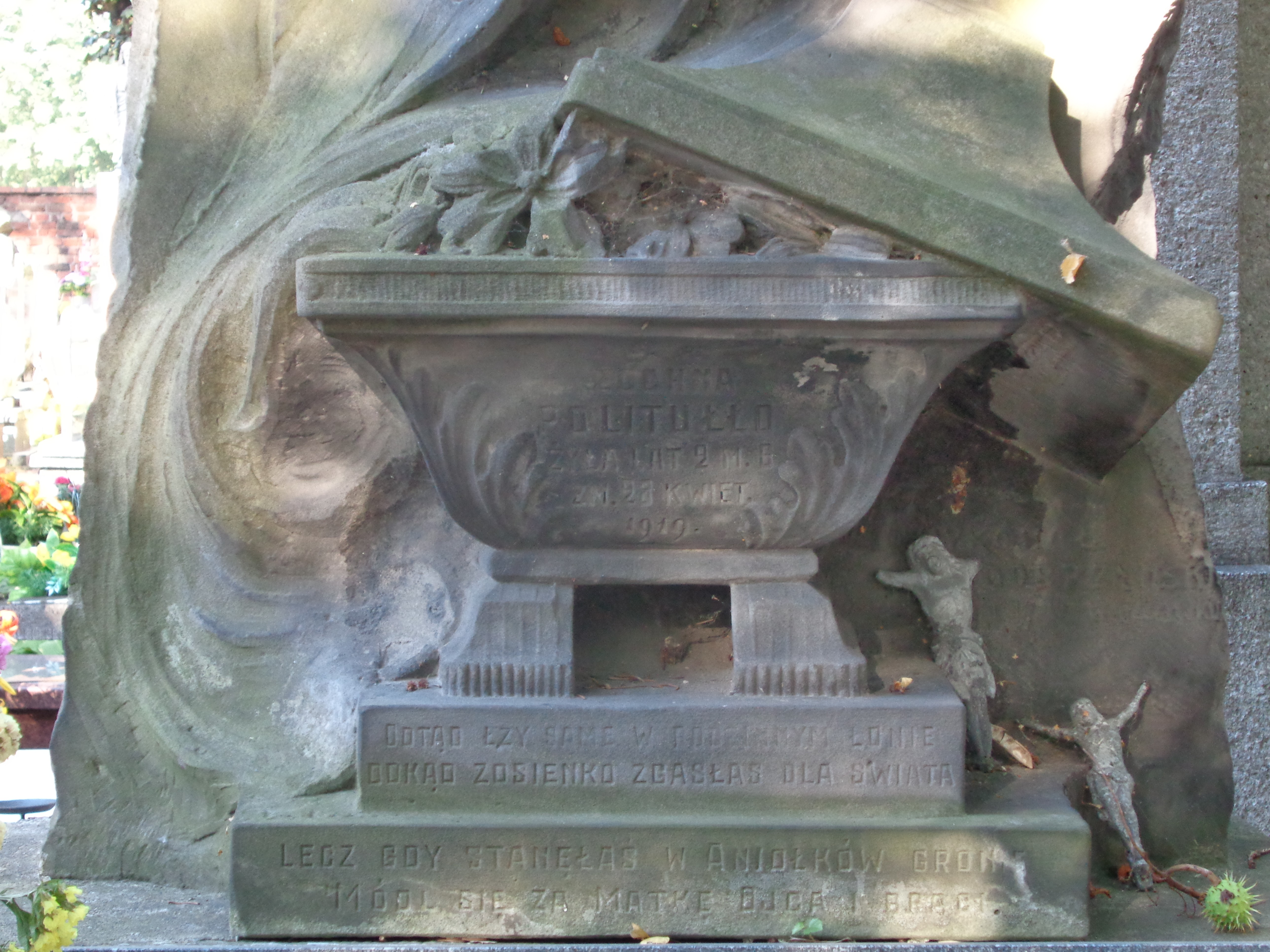 Detail from Zochna Politułło (1916-1919) grave on Communal Cemetery in Włocławek.